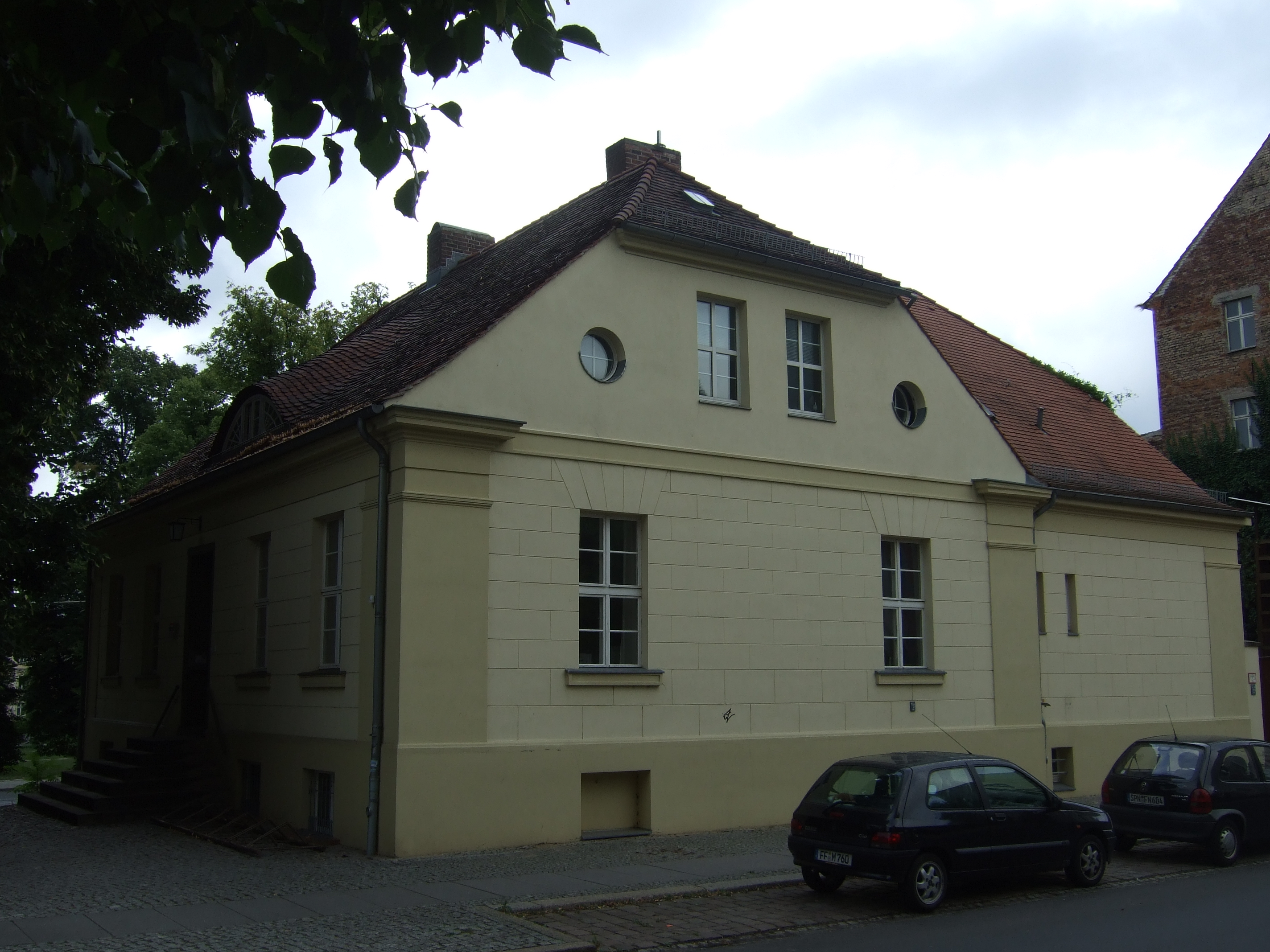 Cultural heritage monument Pfarrhaus der St. Gertraudkirche in Frankfurt (Oder), Germany.